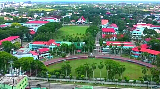 Main campus aerial view of Central Philippine University.